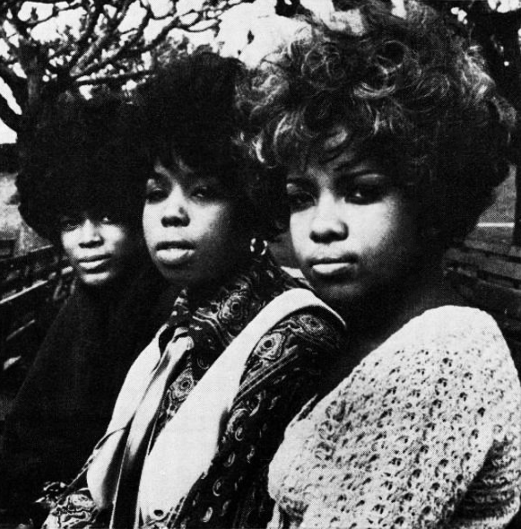 Trade ad for Little Sister's single "Somebody's Watching You".To better adapt it to his respective Wikipedia article, the ad was cropped and cleaned in a graphics editing program. The original can be viewed at the source below.